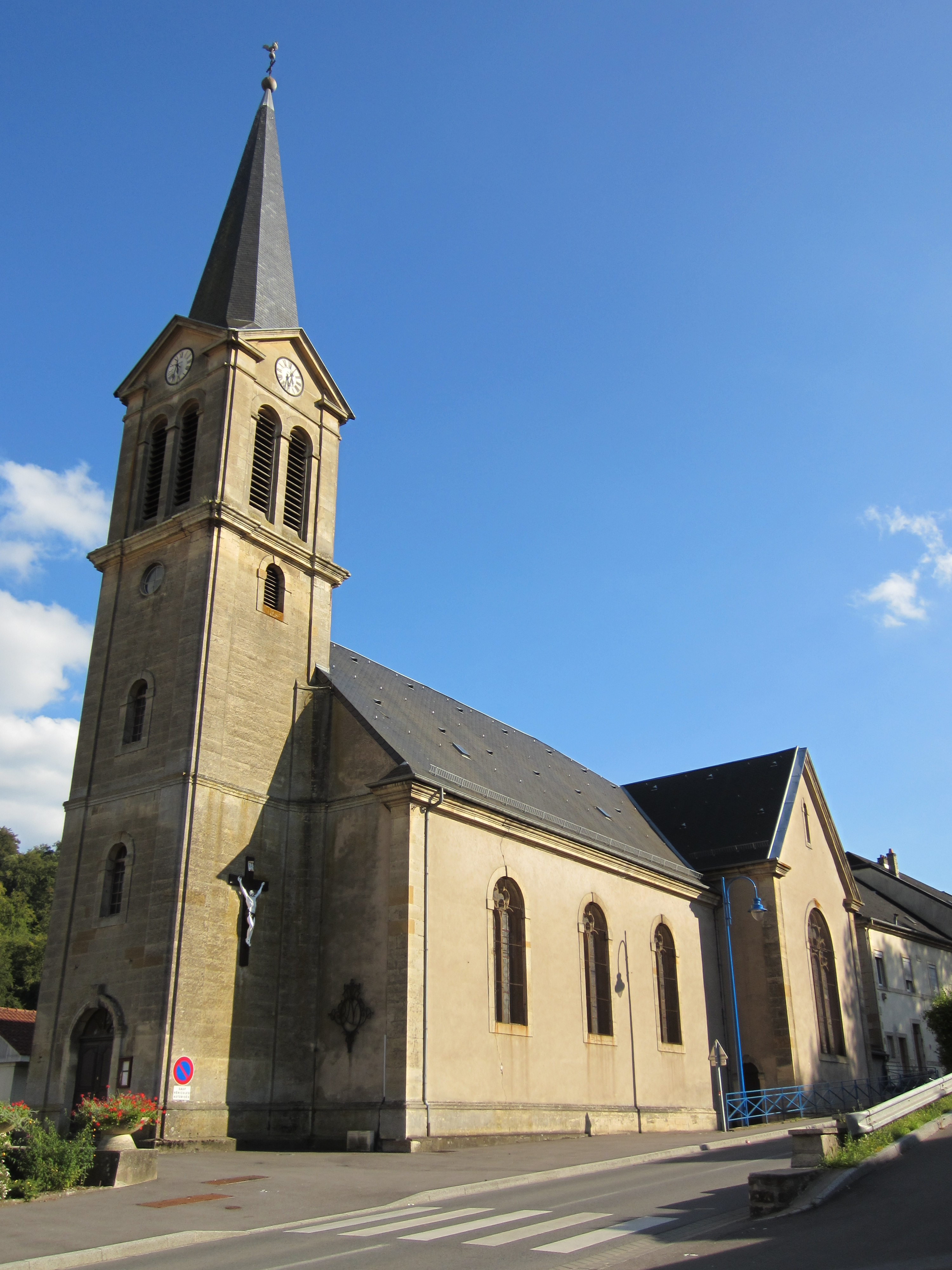 Description Église Saint-Willibrord d'Ottange. Date31 August 2011Sourcemon appareil photoAuthorAimelaimePermission (Reusing this file) Église Saint-Willibrord d'Ottange.